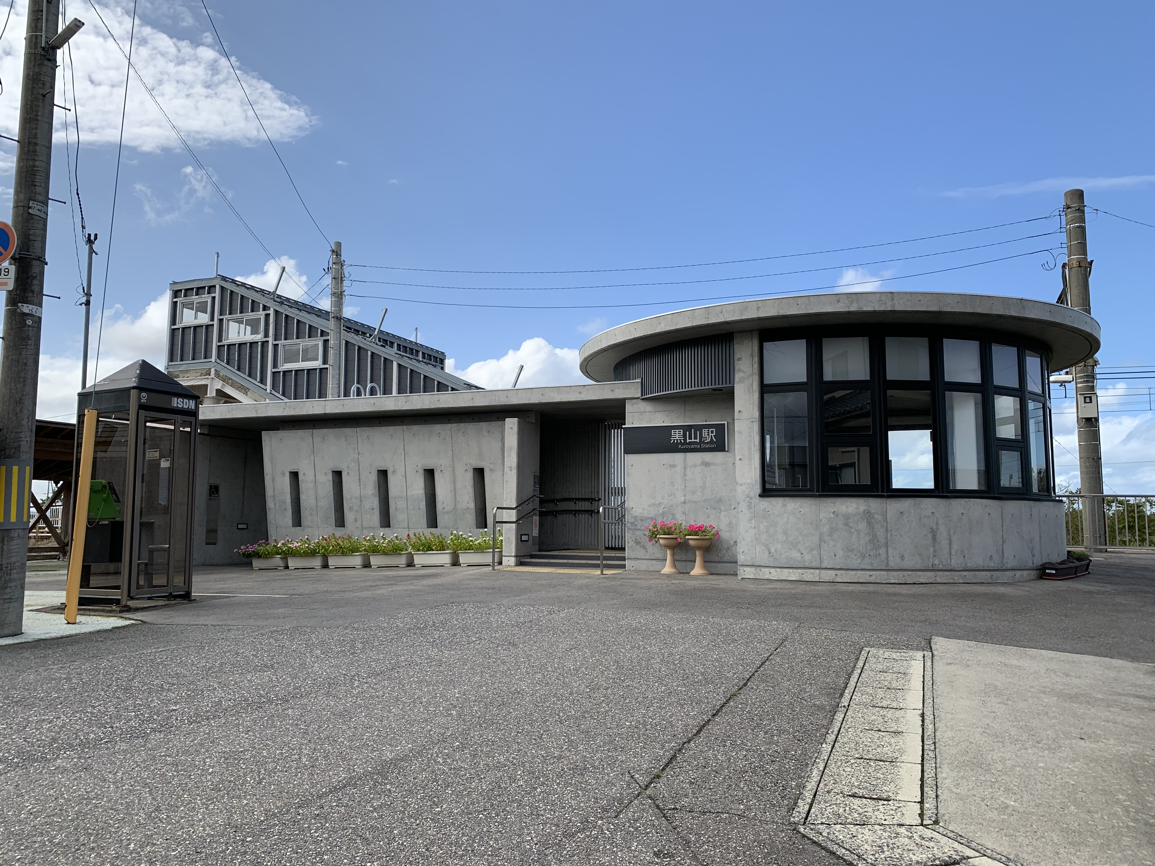 Kuroyama Station, East Japan Railway Company. Took photo in October 2019.